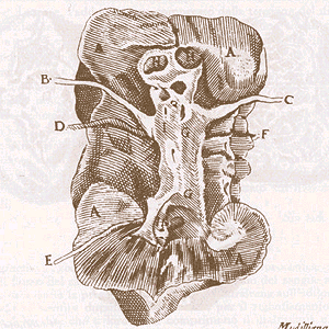 Drawing of kidney structure by Italian anatomist Giovanni Bellini